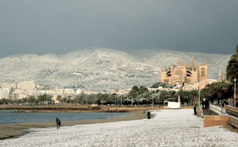 Biggest snowfall since 1956.